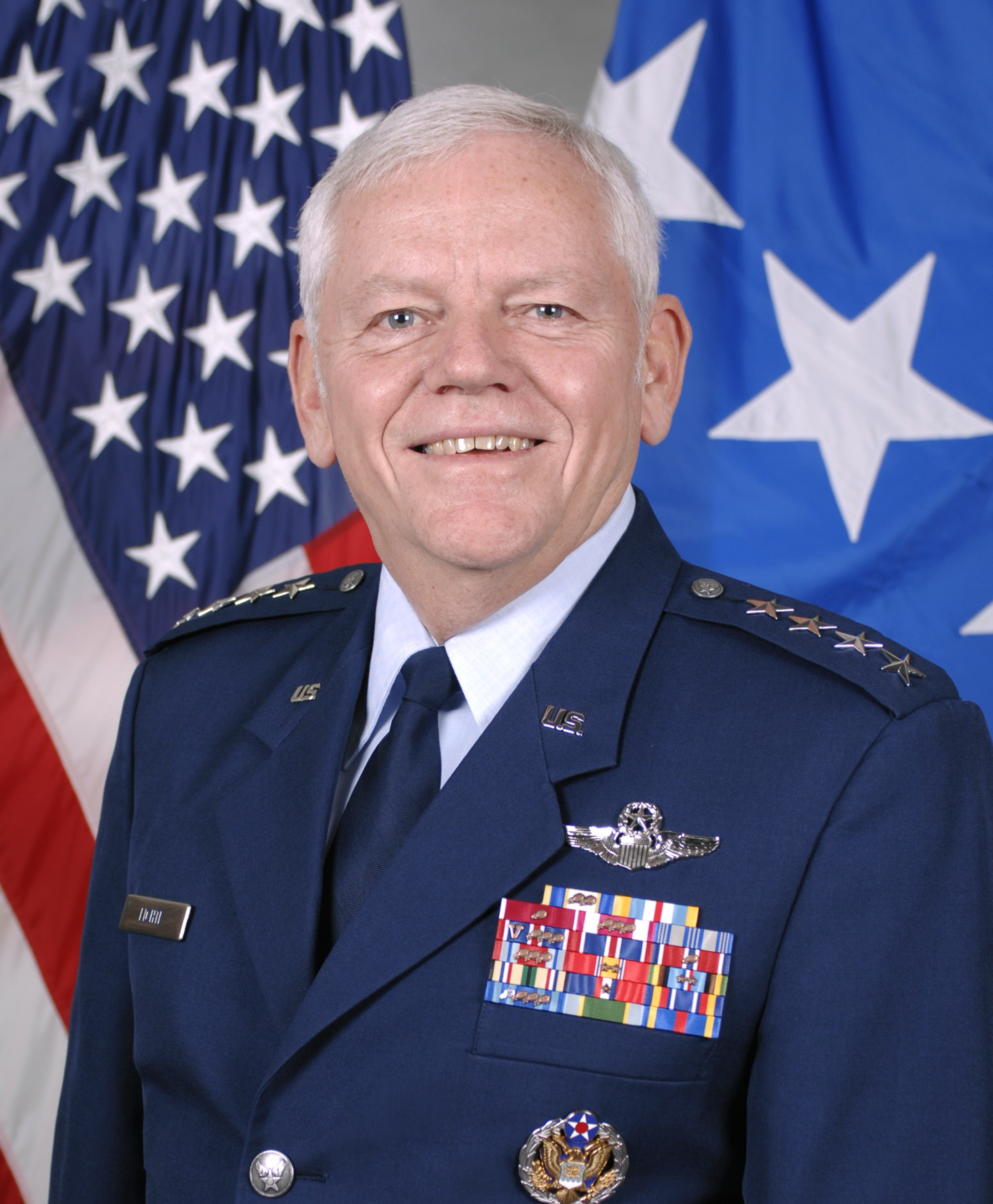 General Arthur J. Lichte, USAF Commander, Air Mobility Command.